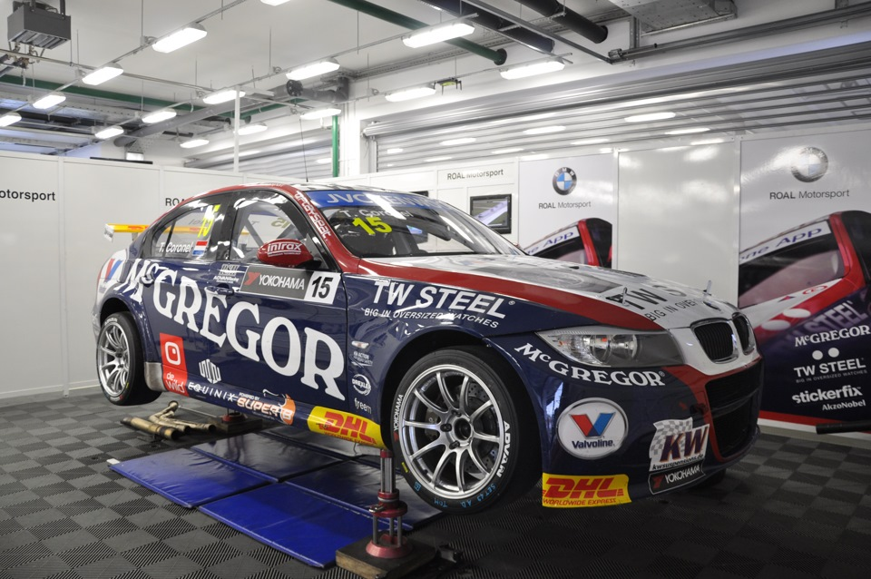 BMW 320TC of driver Tom Coronel on WTCC